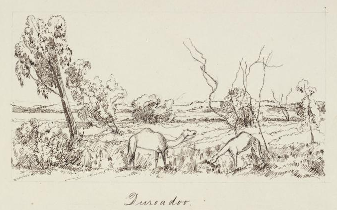 Duroadoo sketched by Hermann Beckler while on the Victorian Exploring expedition (Burke and Wills expedition) (sketch undated but year is 1861)